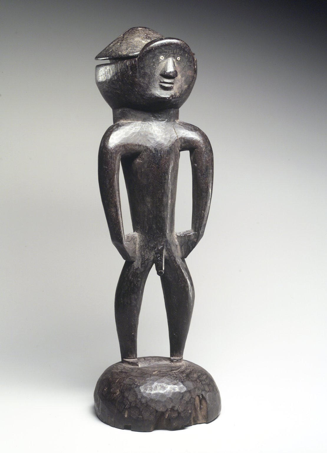 Mortar with Lid in the Form of a Man